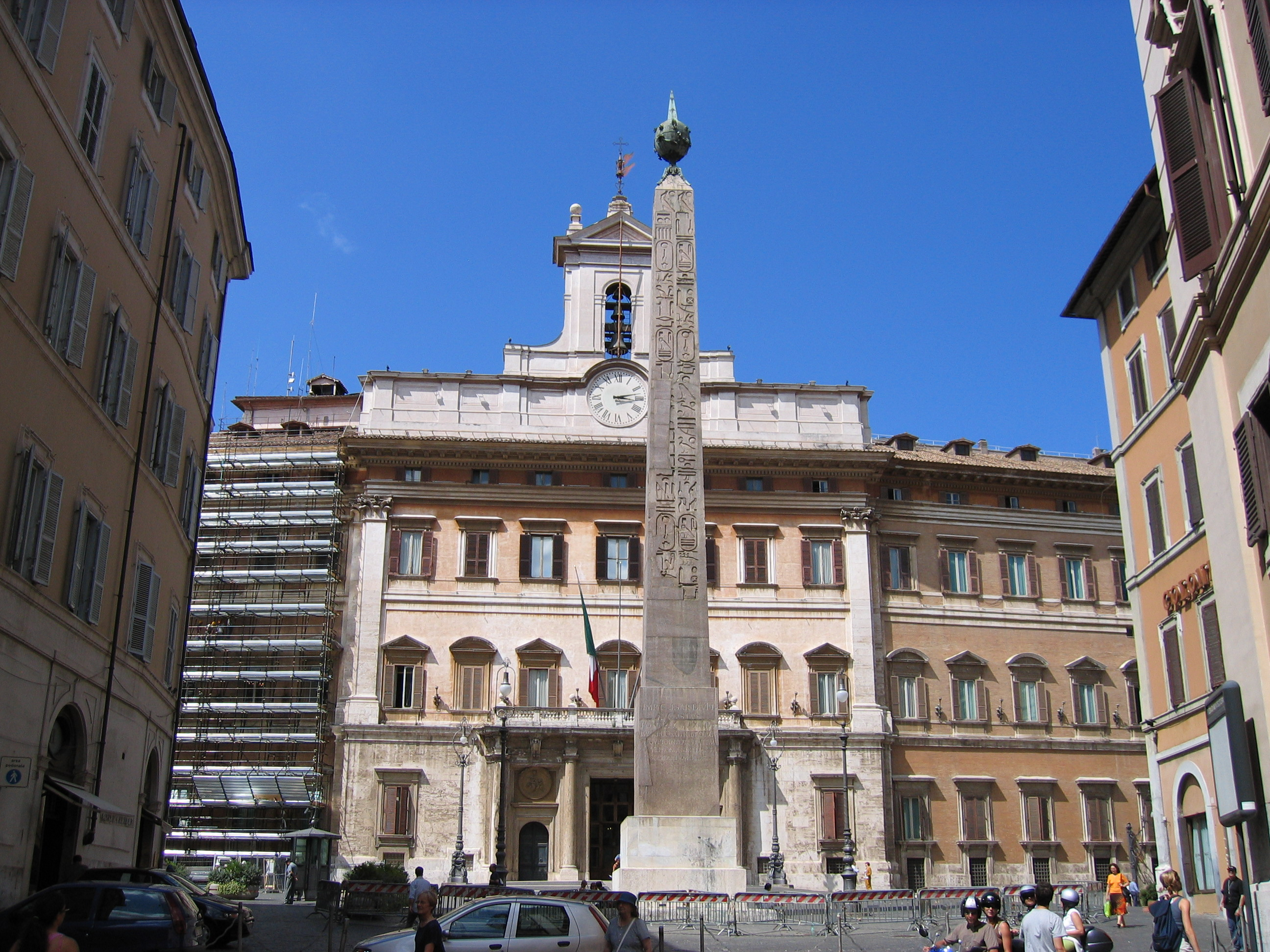 This is a photo of the Solare Obelisk, in front of the Palazzo Montecitorio, in Rome, taken by a Canon S500.